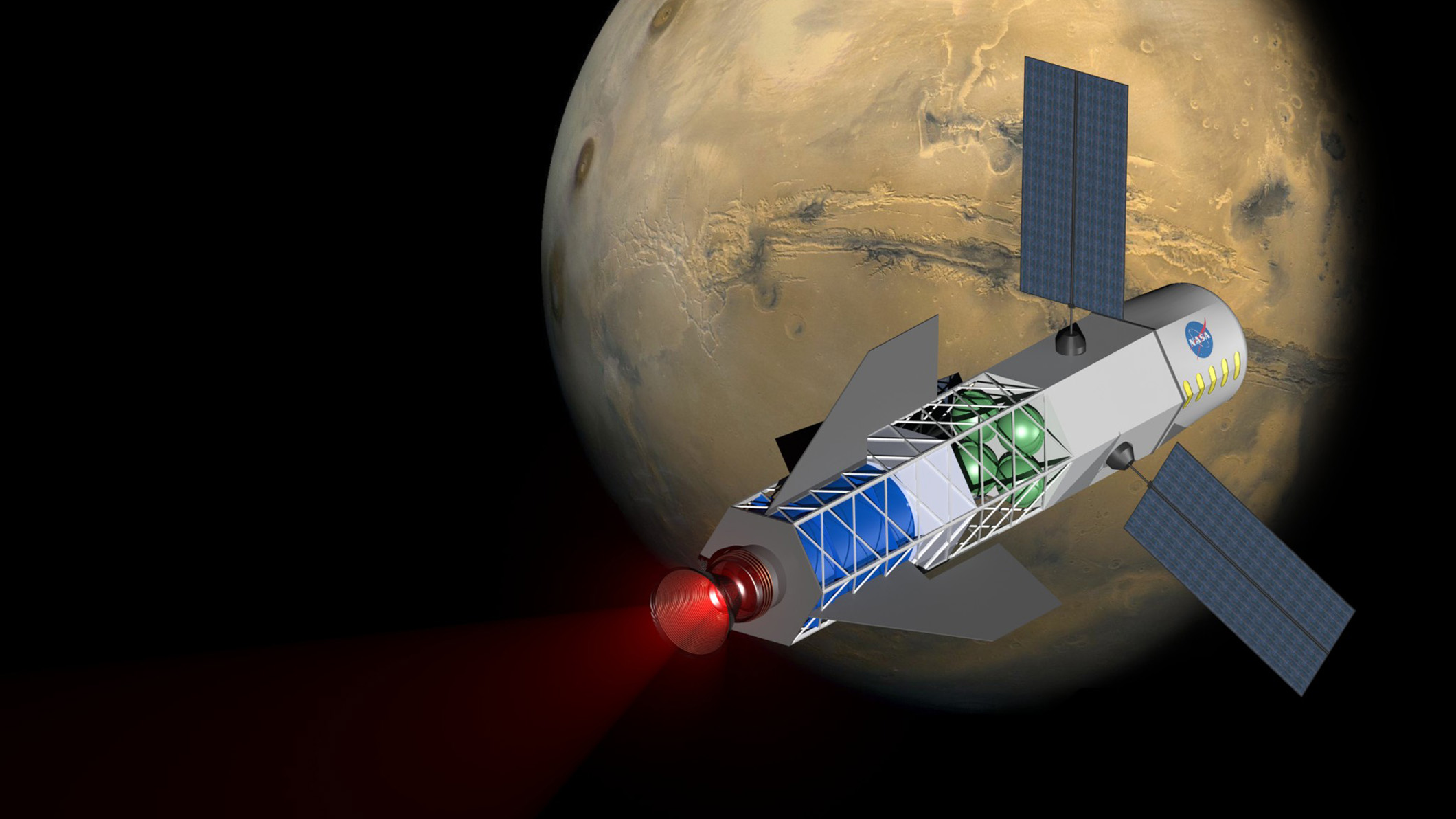 A concept image of a spacecraft powered by a fusion-driven rocket. In this image, the crew would be in the forward-most chamber. Solar panels on the sides would collect energy to initiate the process that creates fusion.